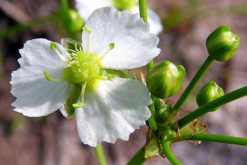 The flower and the buds of Alisma plantago-aquatica. Moscow region, Russia.